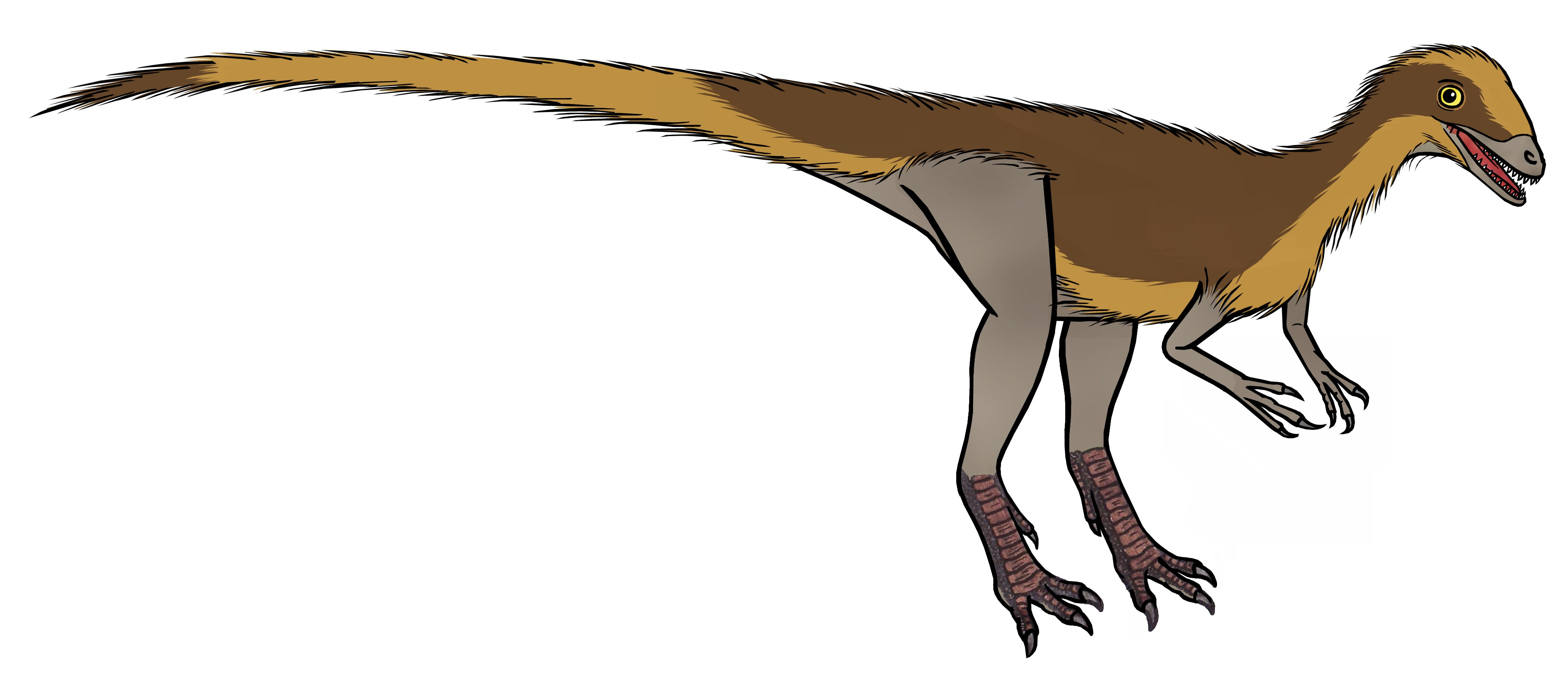 Compsognatus was a meateating dinosaur, the size of a hen. It lived in Germany during the late jurassic.